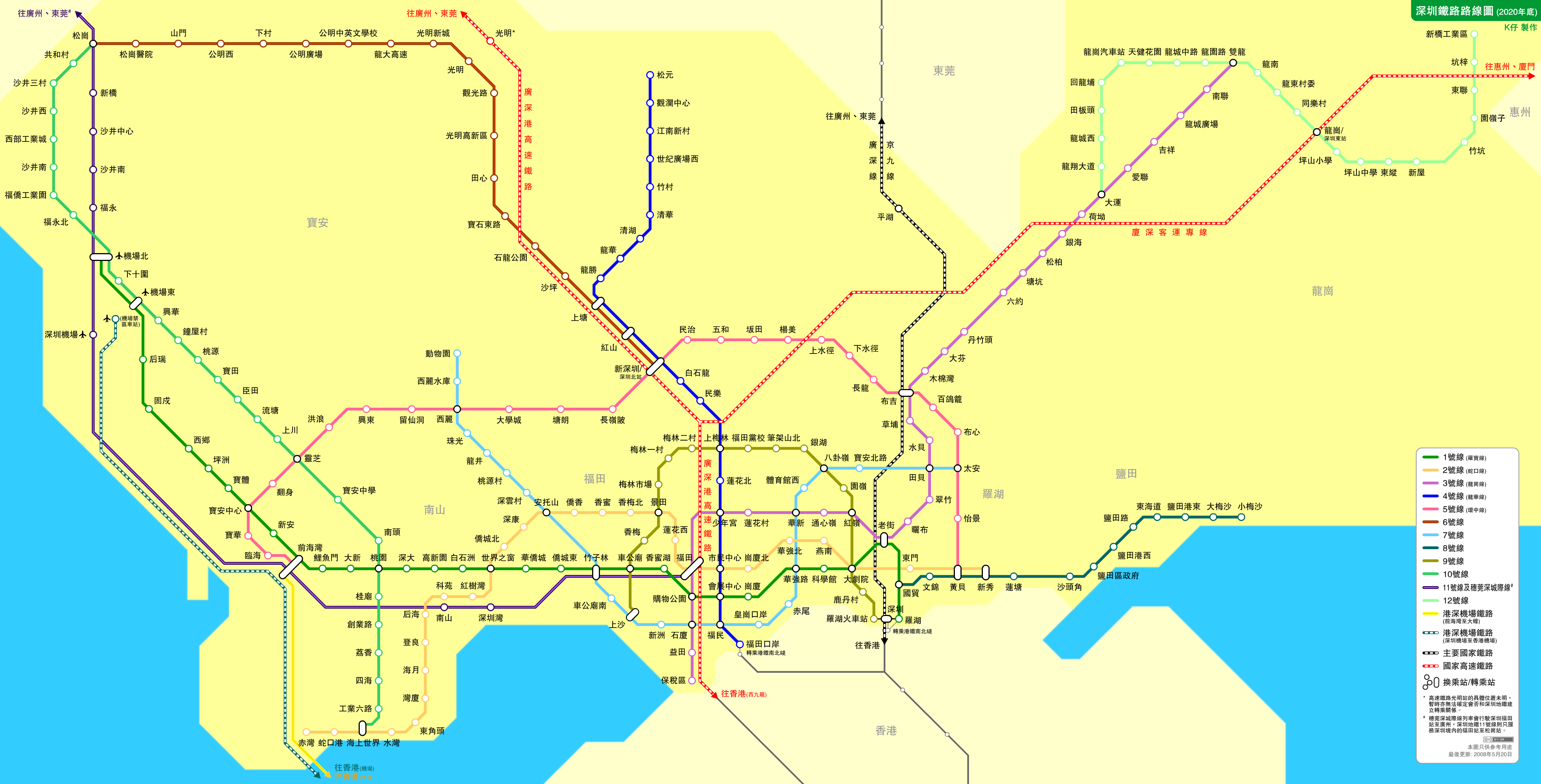 Map of Shenzhen railways at the end of 2020 in Traditional Chinese